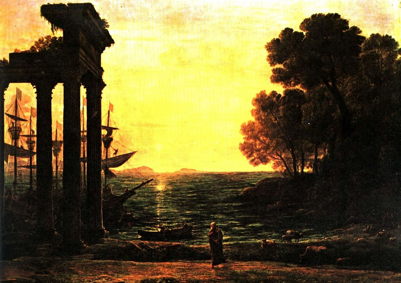 Seascape with Ezekiel Crying on the Ruins of Tyre